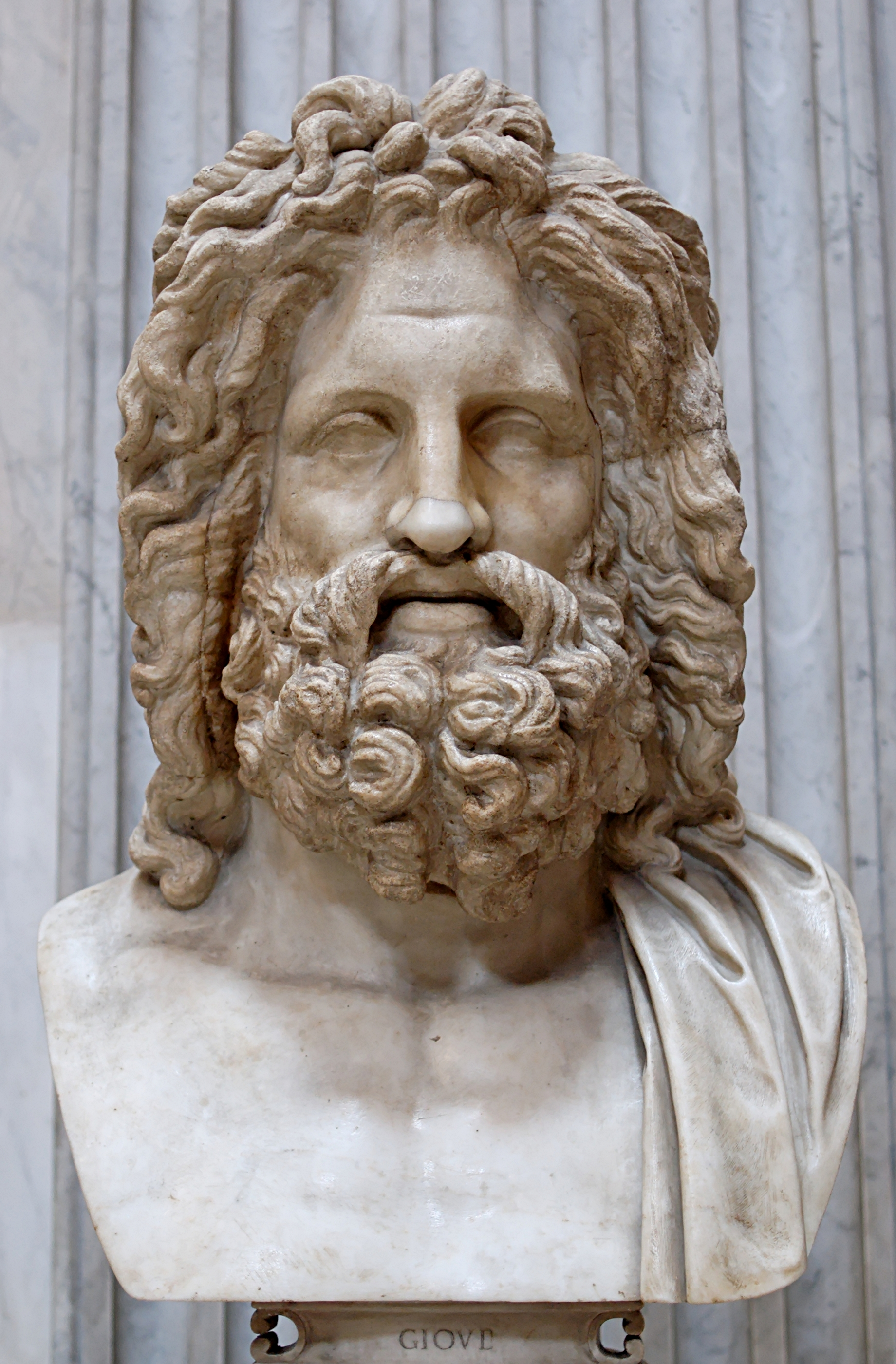 So-called “Zeus of Otricoli”. Marble, Roman copy after a Greek original from the 4th century.